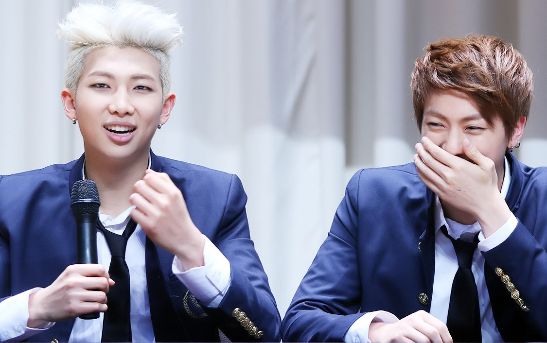 Bangtan Boys at a fanmeet in Yongsan on February 23, 2014.